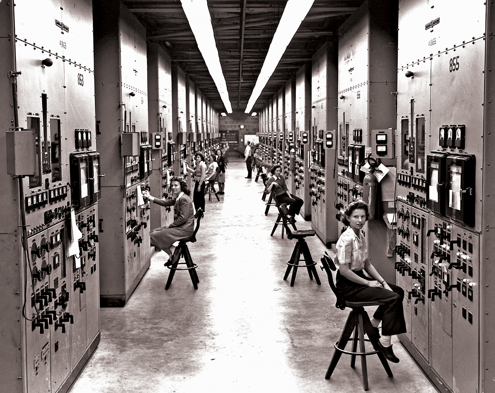 Calutron operators at their panels, in the Y-12 plant at Oak Ridge, TN during World War II. The calutrons were used to refine uranium ore into fissile material. During the Manhattan Project effort to construct an atomic explosive, workers toiled in secrecy, most having no idea to what end their labors were directed. Gladys Owens, the woman seated in the foreground, didn't understand the exact purpose of her job until seeing this photo in a public tour of the facility fifty years later.